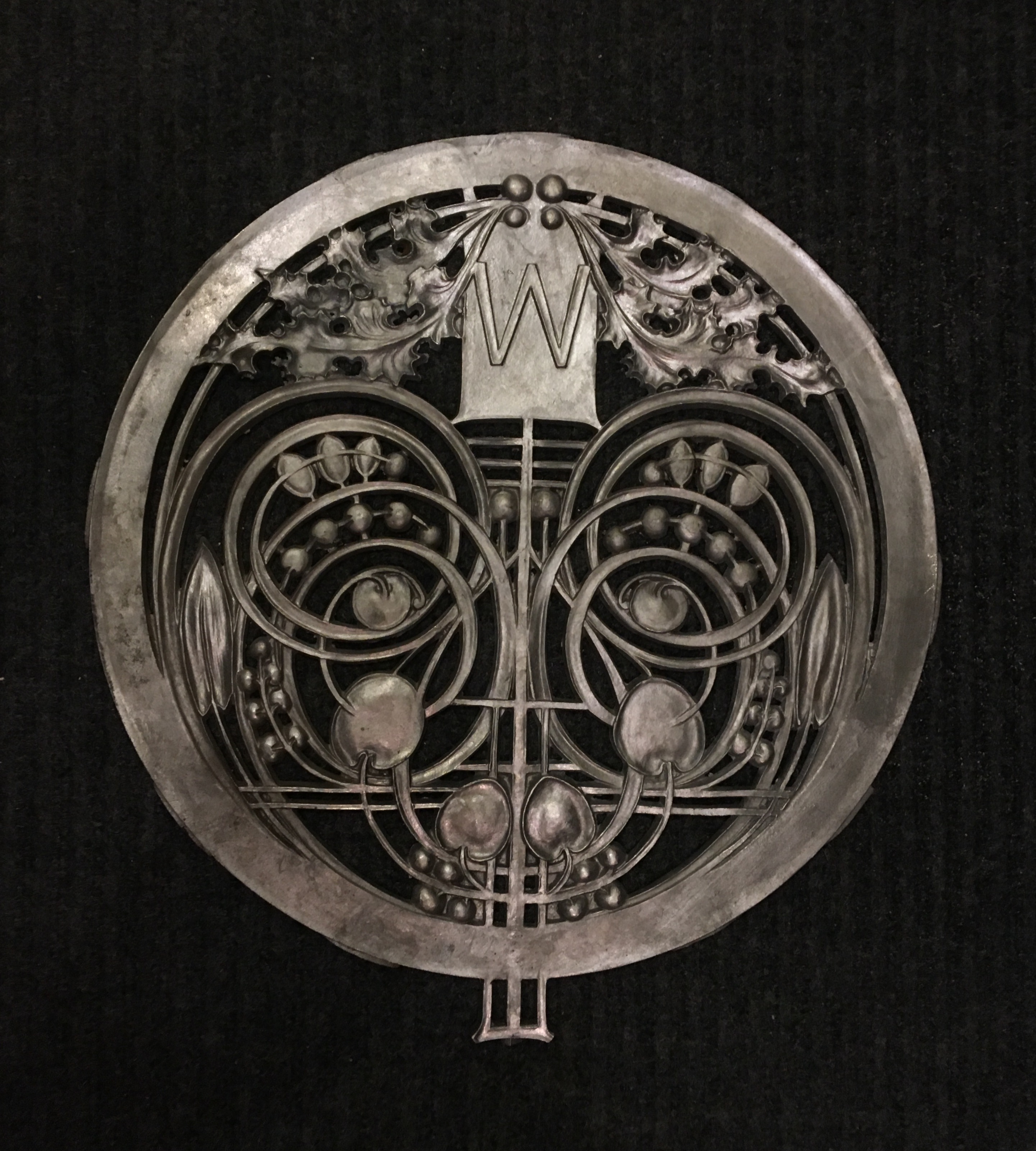 The beautiful ornamental metal work inside and outside the courthouse was produced by Crown Iron Works of Minneapolis, Minnesota